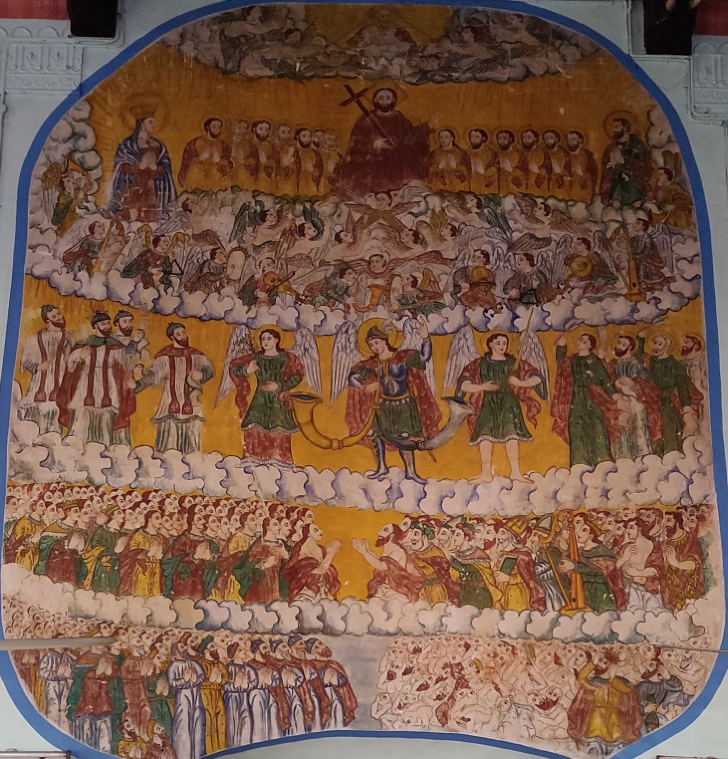 Mural of Last Judgement above the northern entrance at St Mary’s Jacobite Syrian Church (Soonoro Cathedral) in Angamaly, Kerala, India. The murals in this church are a mix of West Asian and local traditions and have come down from the 17th century.